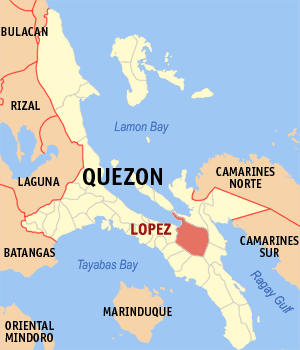 Map of Quezon showing the location of Lopez